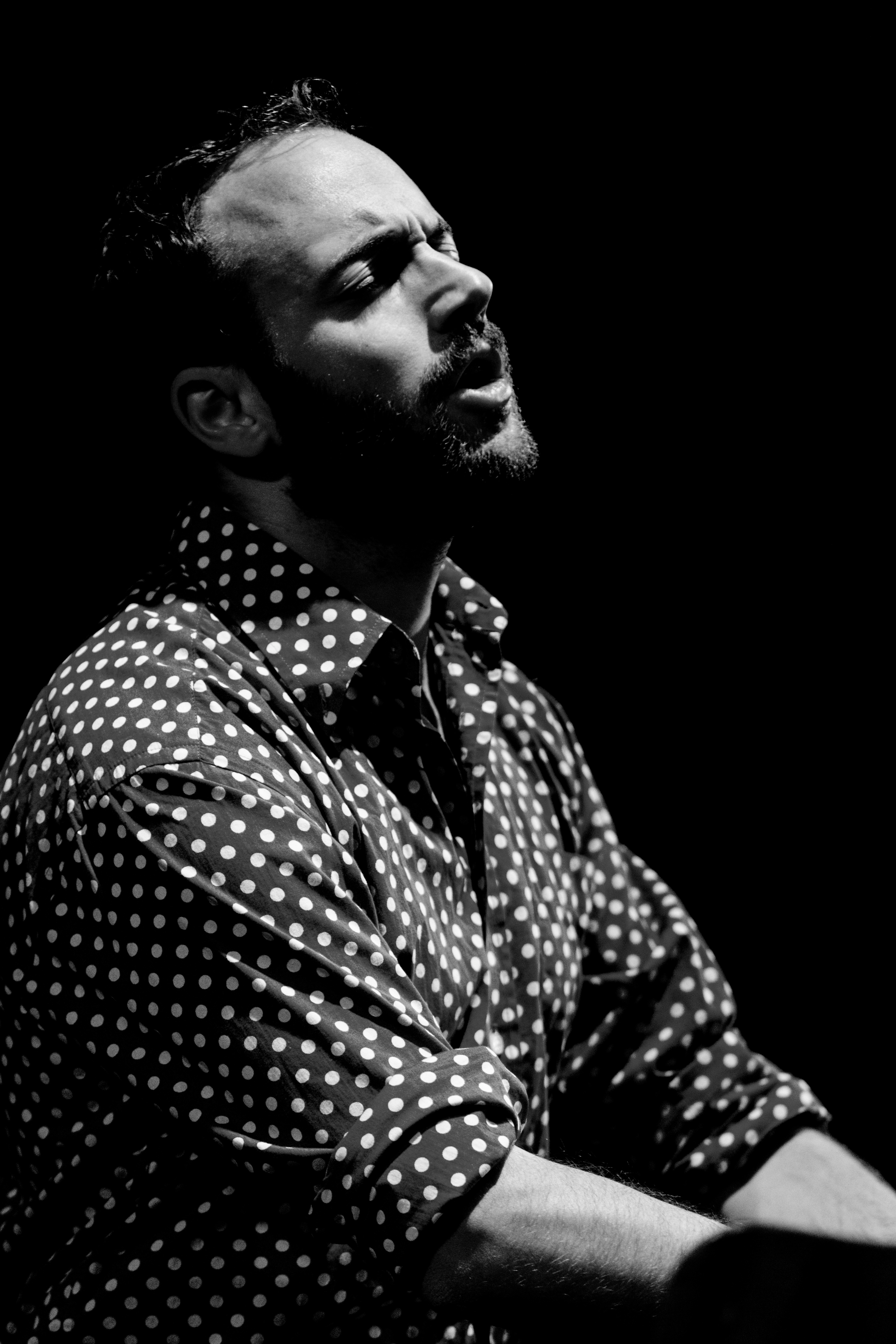 Photo by Odessa Jazz Festival